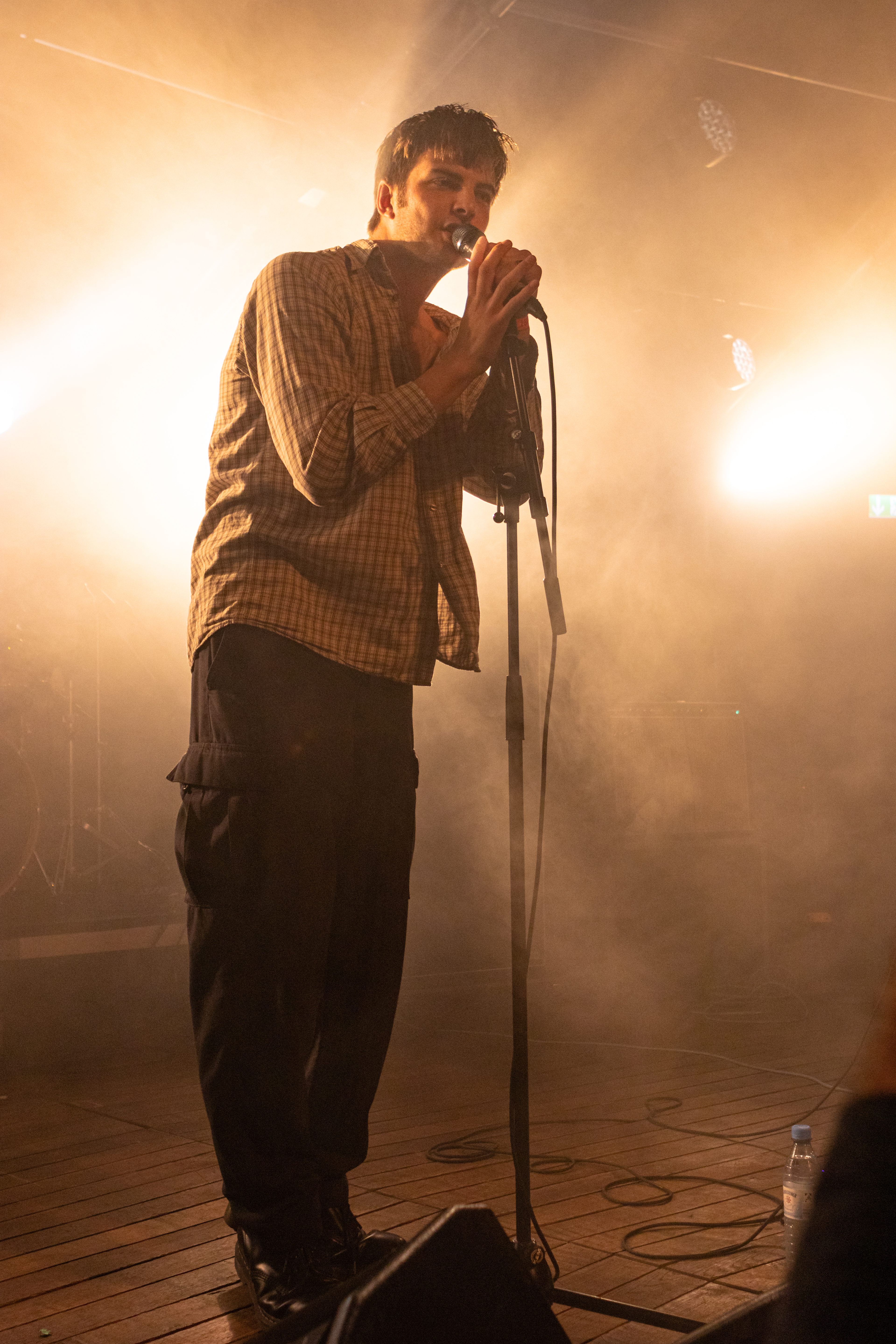 Fontaines D.C. in the Spiegeltent at Haldern Pop Festival 2019.